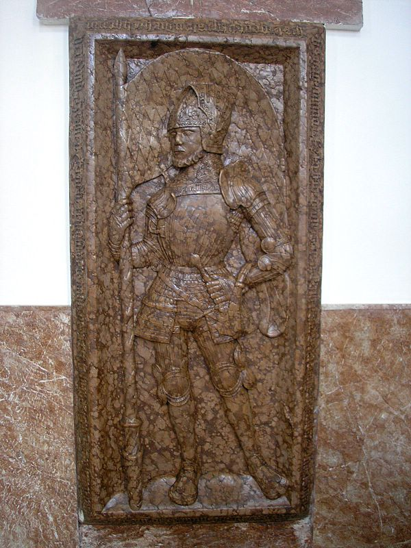 Minster St. Mary at Diessen (Upper Bavaria, Germany). Tombstone of Count Berthold I